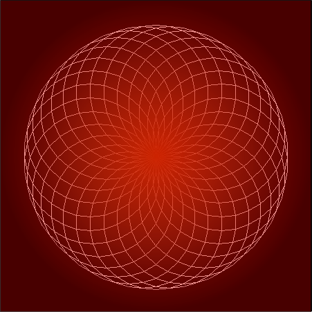 Example Output of Logo (turtle graphic). Logo source code to create this graphic: to n_eck :ne :sz repeat :ne [rt 360 / :ne fd :sz] end to mn_eck :ne :sz repeat :ne [rt 360 / :ne n_eck :ne :sz] end Start Program with: mn_eck 36 20